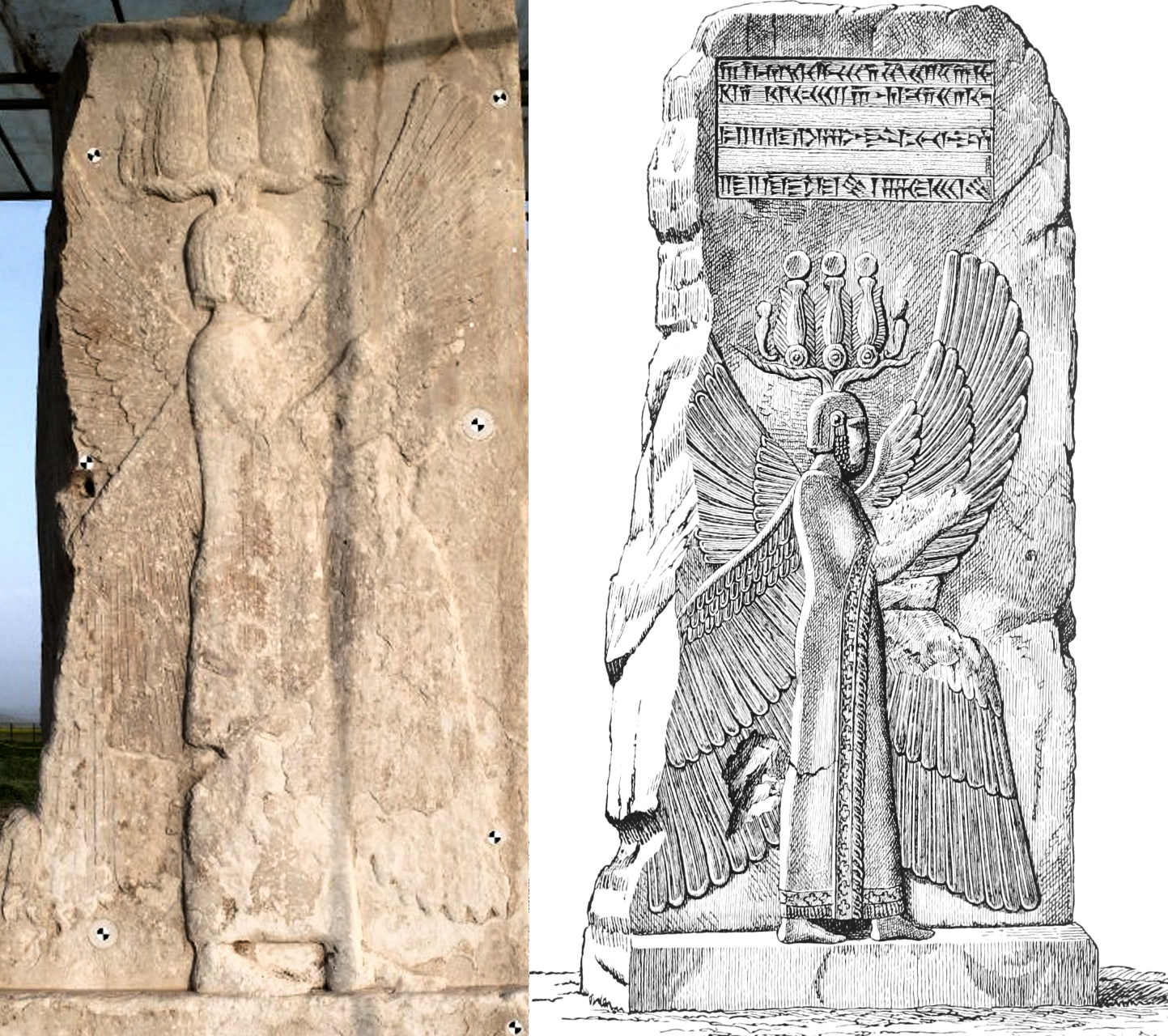 Cyrus stele in Pasagardae